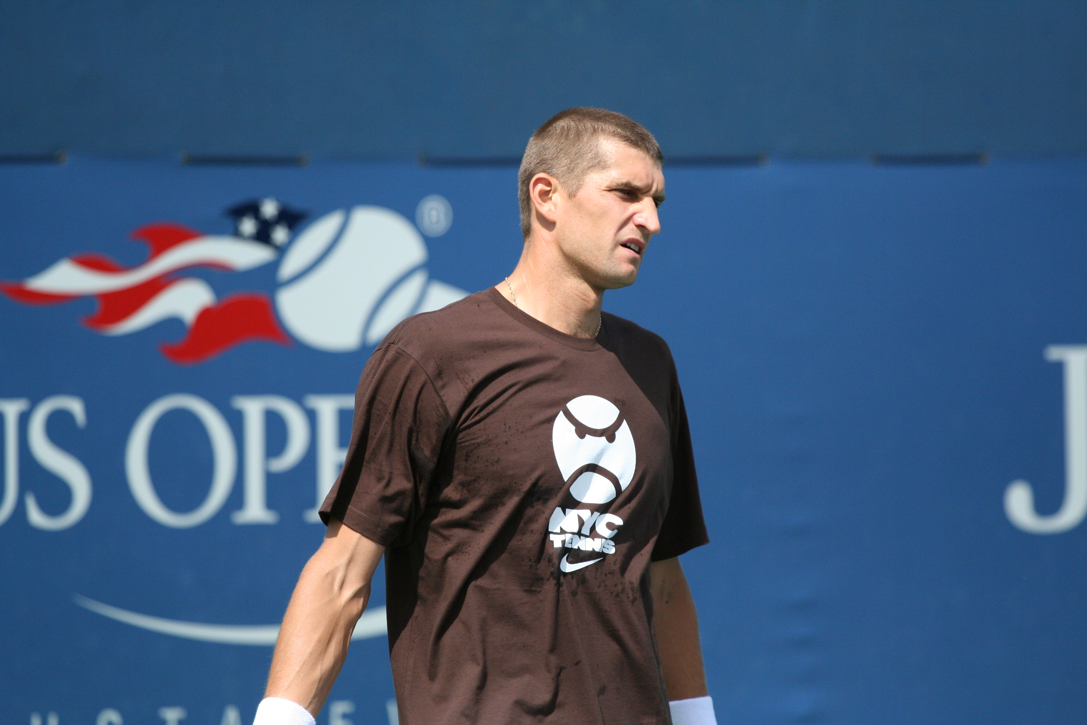 U.S. Open practice Monday, Aug. 31, 2009